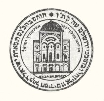 Stamp of the Tiferes Yisrael Synagogue, from 1872.